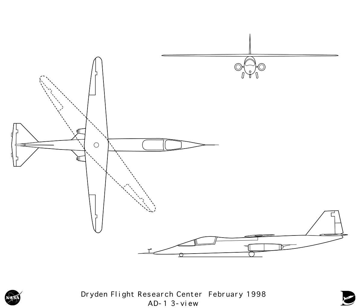 Ames-Dryden-1 (AD-1) 3-View line art